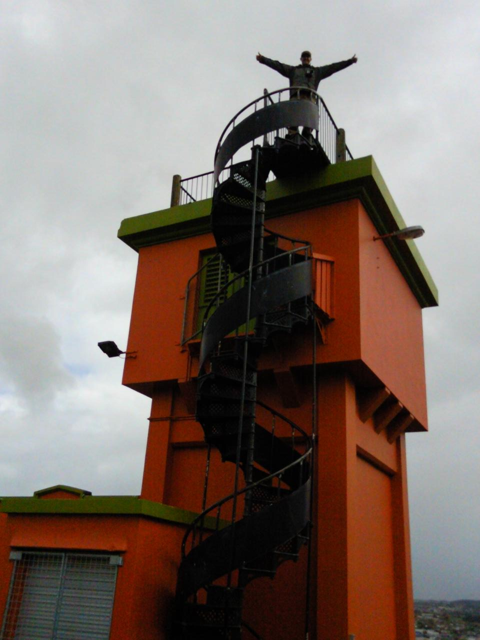 Whanganui, Durie Hill lift.